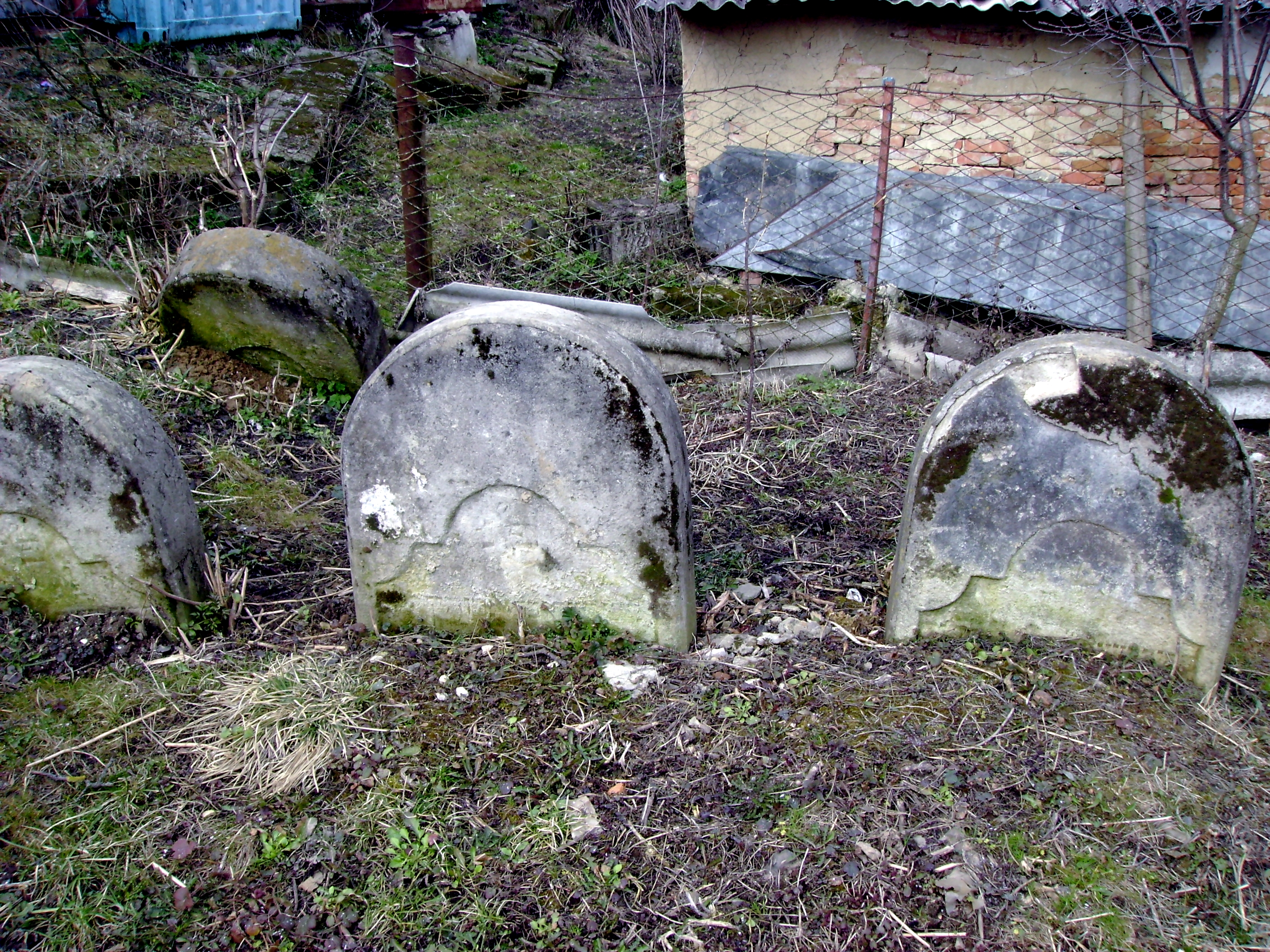 Cemetery of jews in Dubno of Rivne region (the Ukraine)